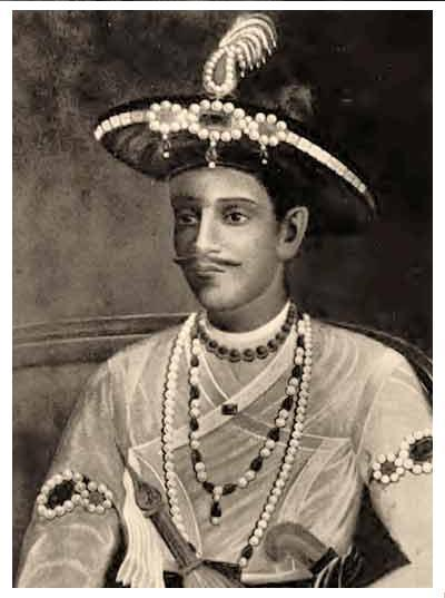 Portrait of Ali Jah of Bengal, Bihar and Orissa.